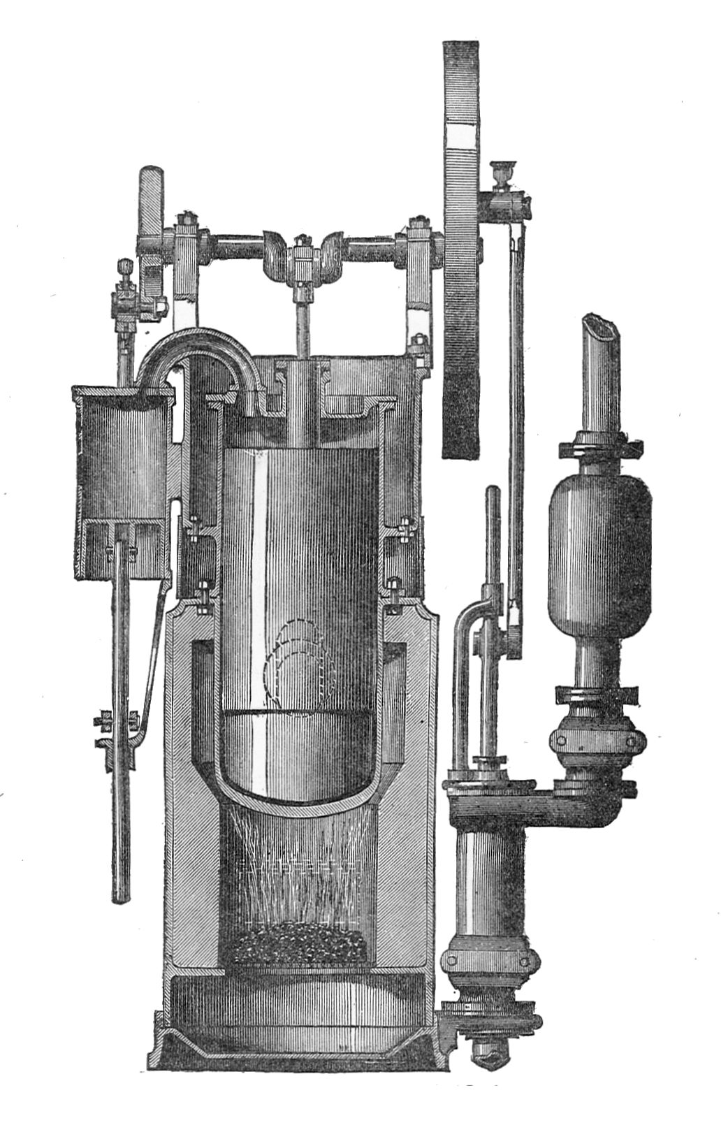 Bailey's hot-air engine, section (Rankin Kennedy, Modern Engines, Vol II).jpg